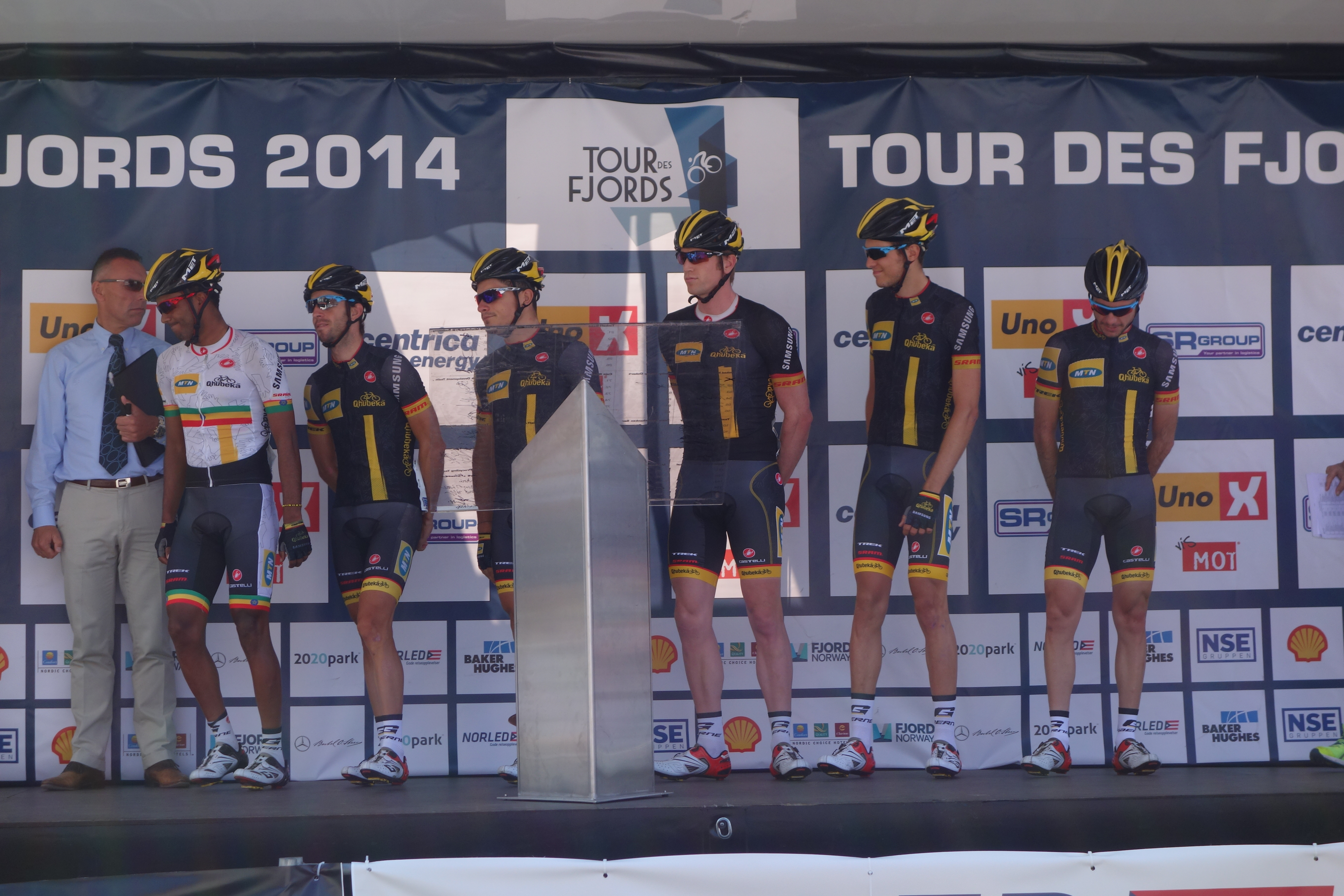 MTN Qhubeka in Bergen before stage 1 of the 2014 Tour des Fjords.